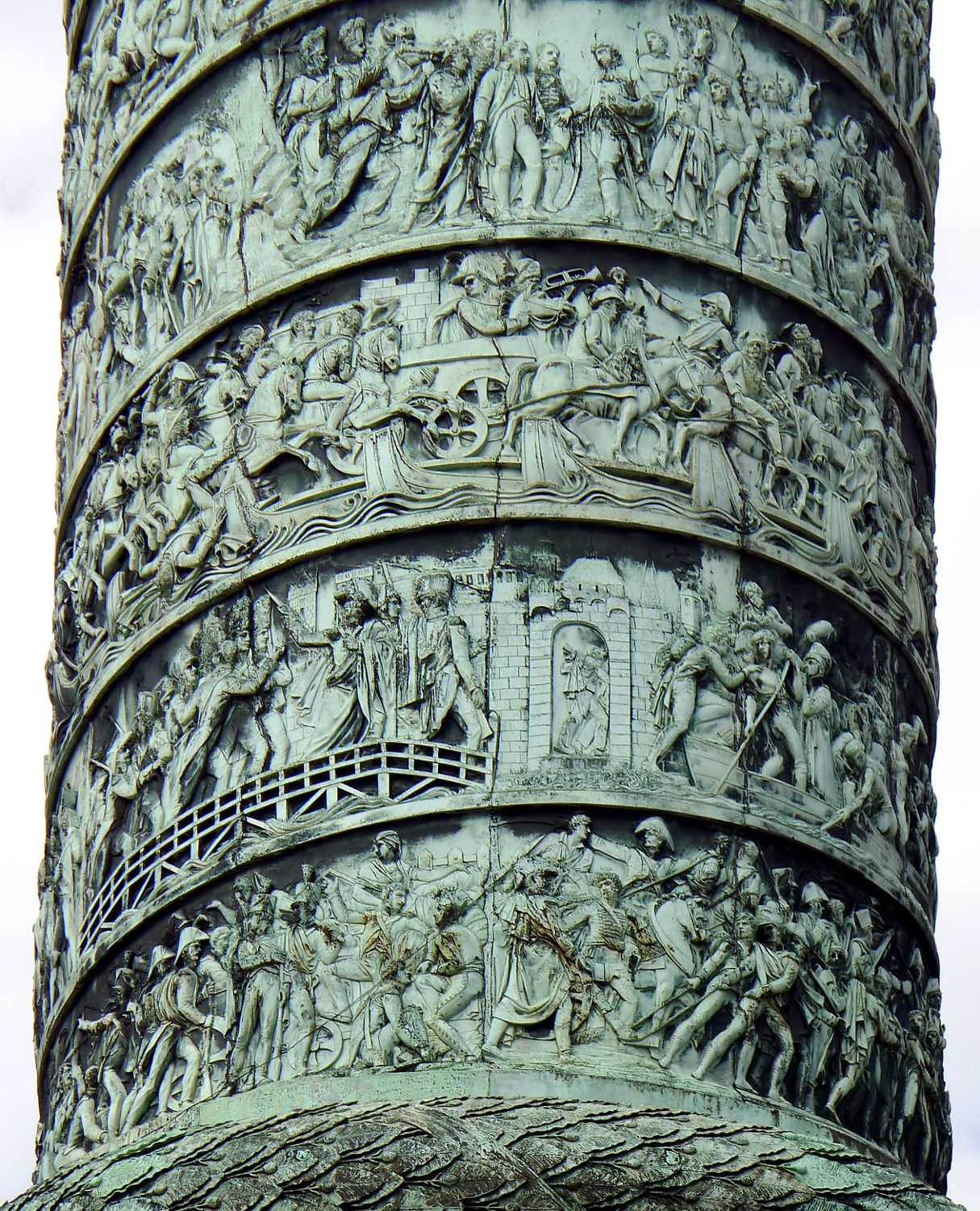 Vendôme column - Paris